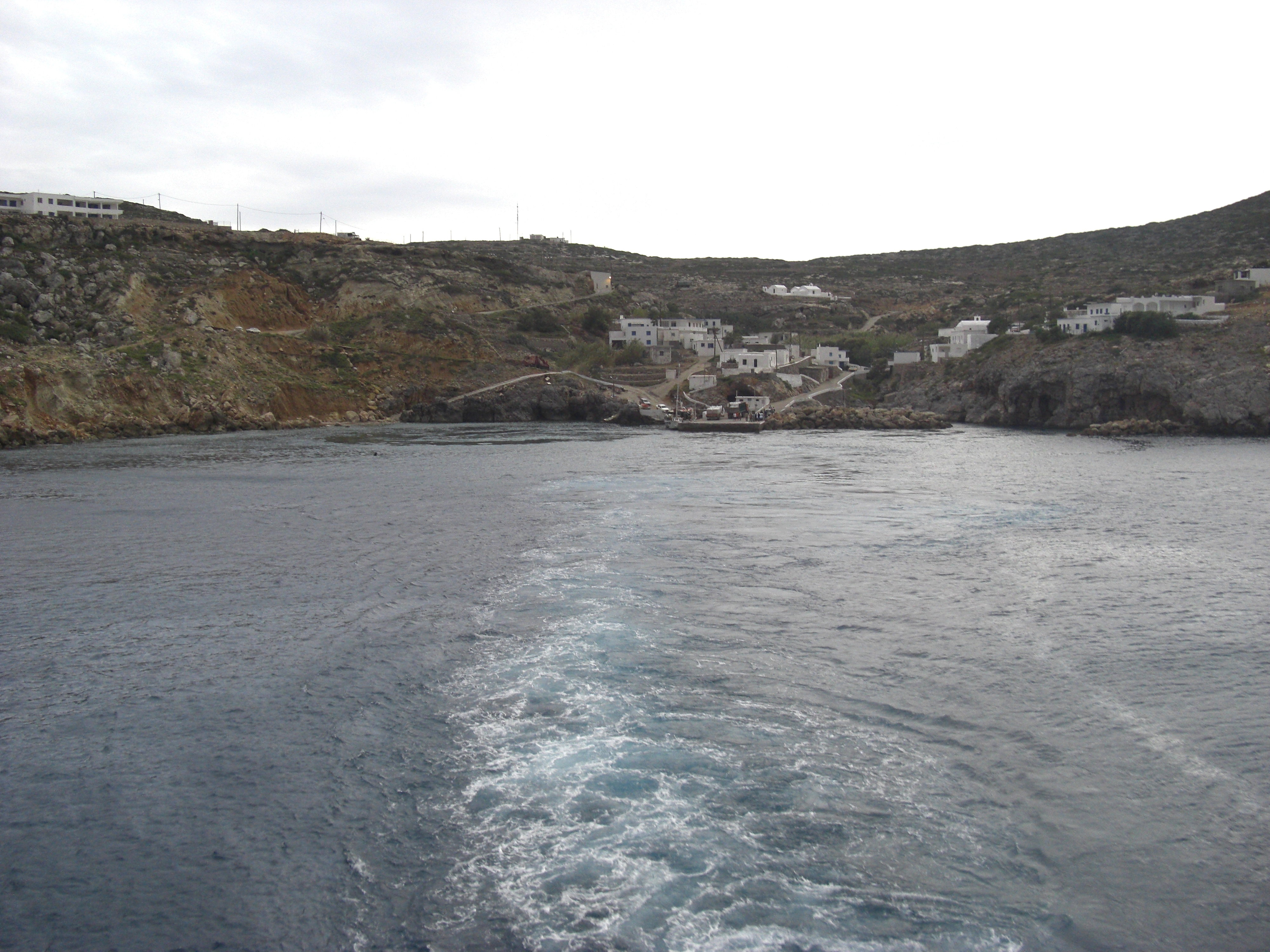 Potamos, the harbour of the greek ionian island Antikythera.